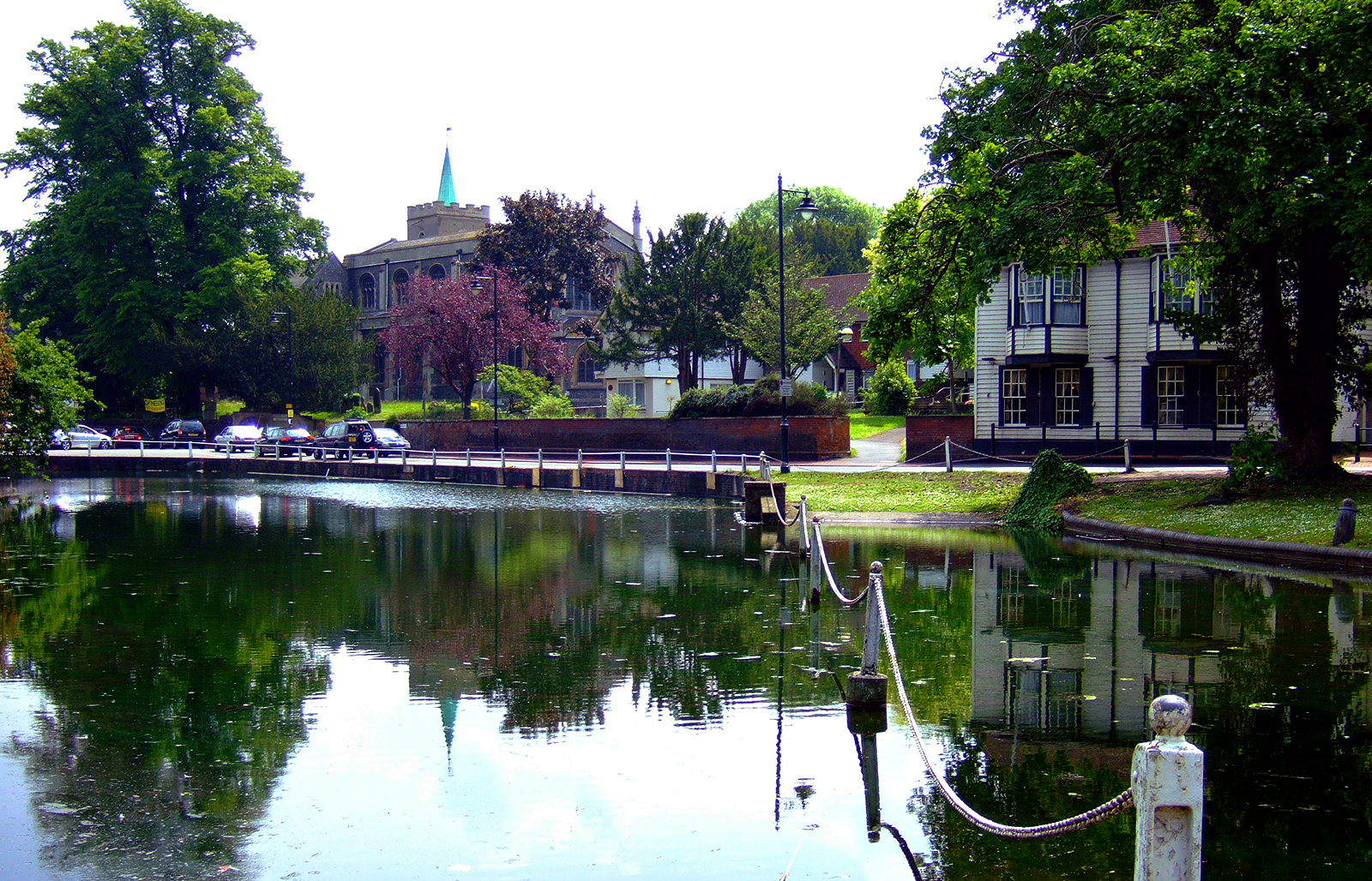 Carshalton 2007. View of All Saints Church, part of the Greyhound Hotel, and Upper Pond. See also